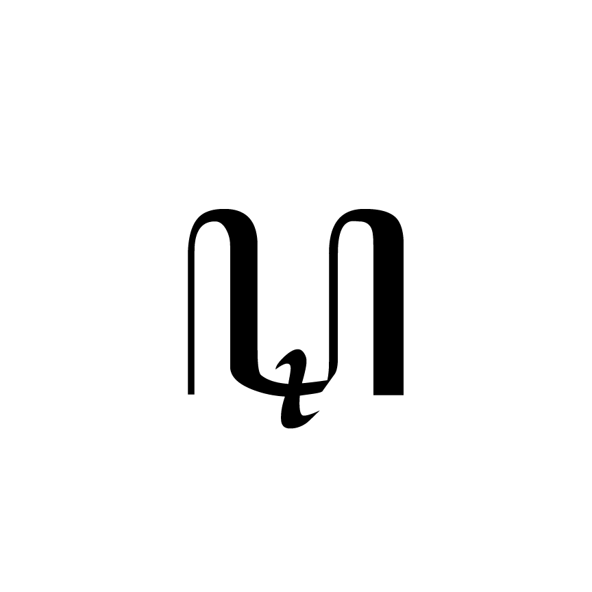 Special letter 'Re' of Javanese script in Yogyakarta style.